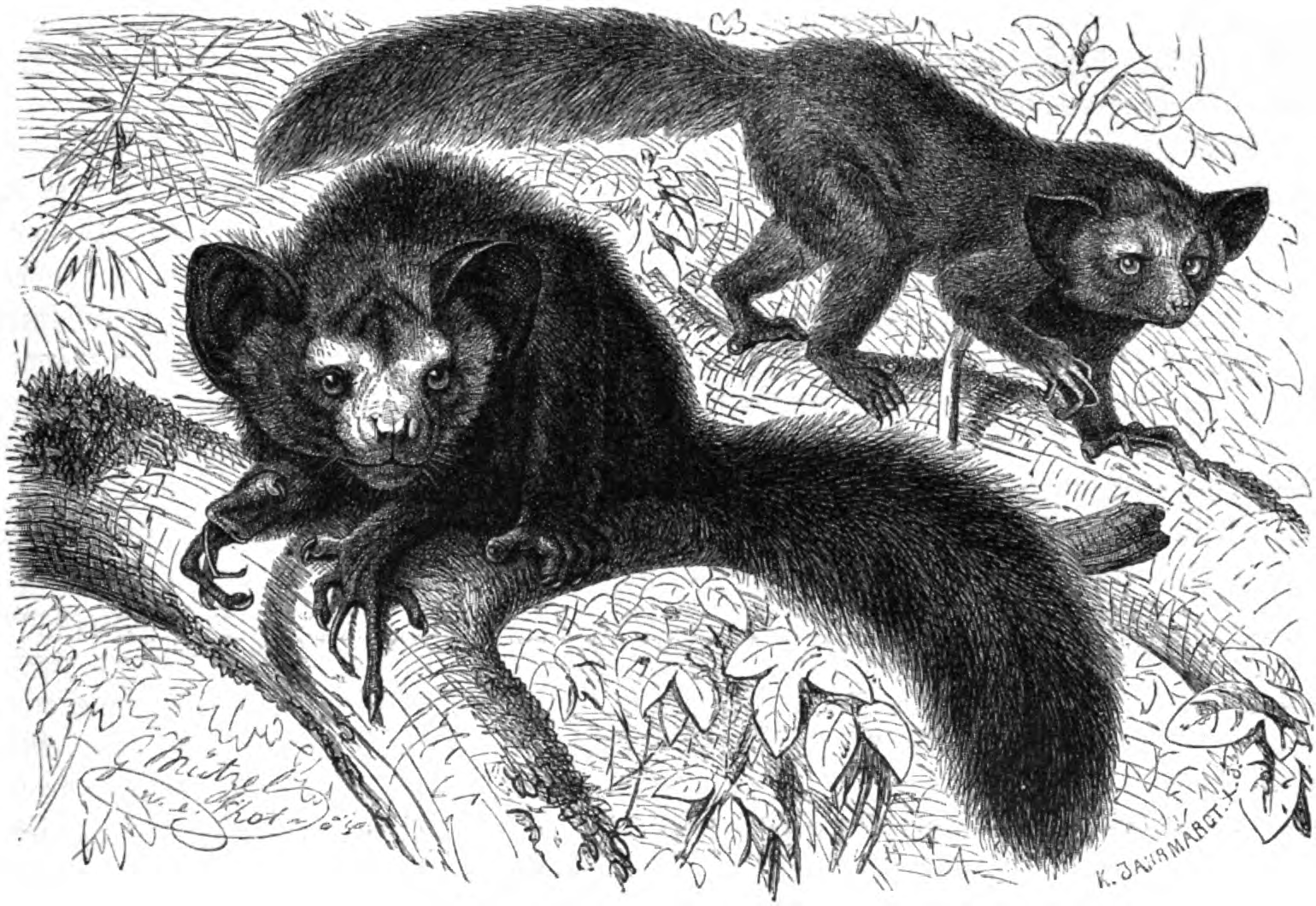 Aye-aye (Daubentonia madagascariensis)